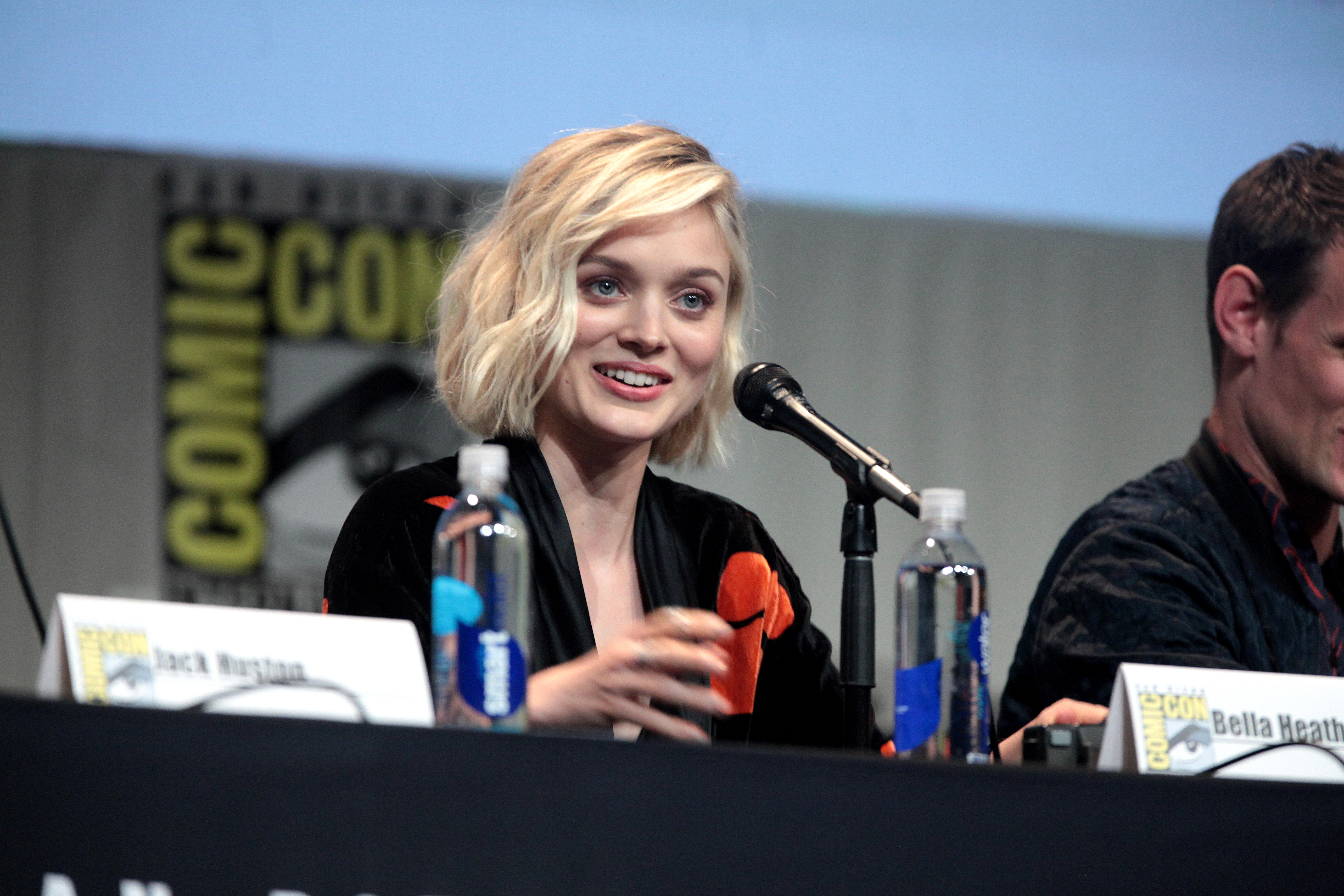 Bella Heathcote speaking at the 2015 San Diego Comic Con International, for "Pride and Prejudice and Zombies", at the San Diego Convention Center in San Diego, California.